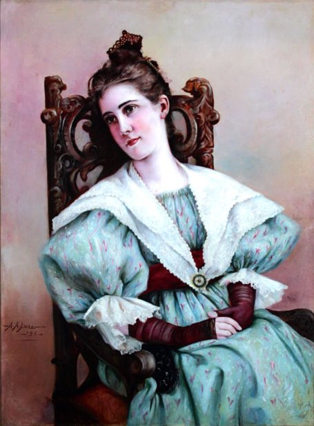 Mary Henderson Kirkland, wife of Vanderbilt chancellor James Hampton Kirkland